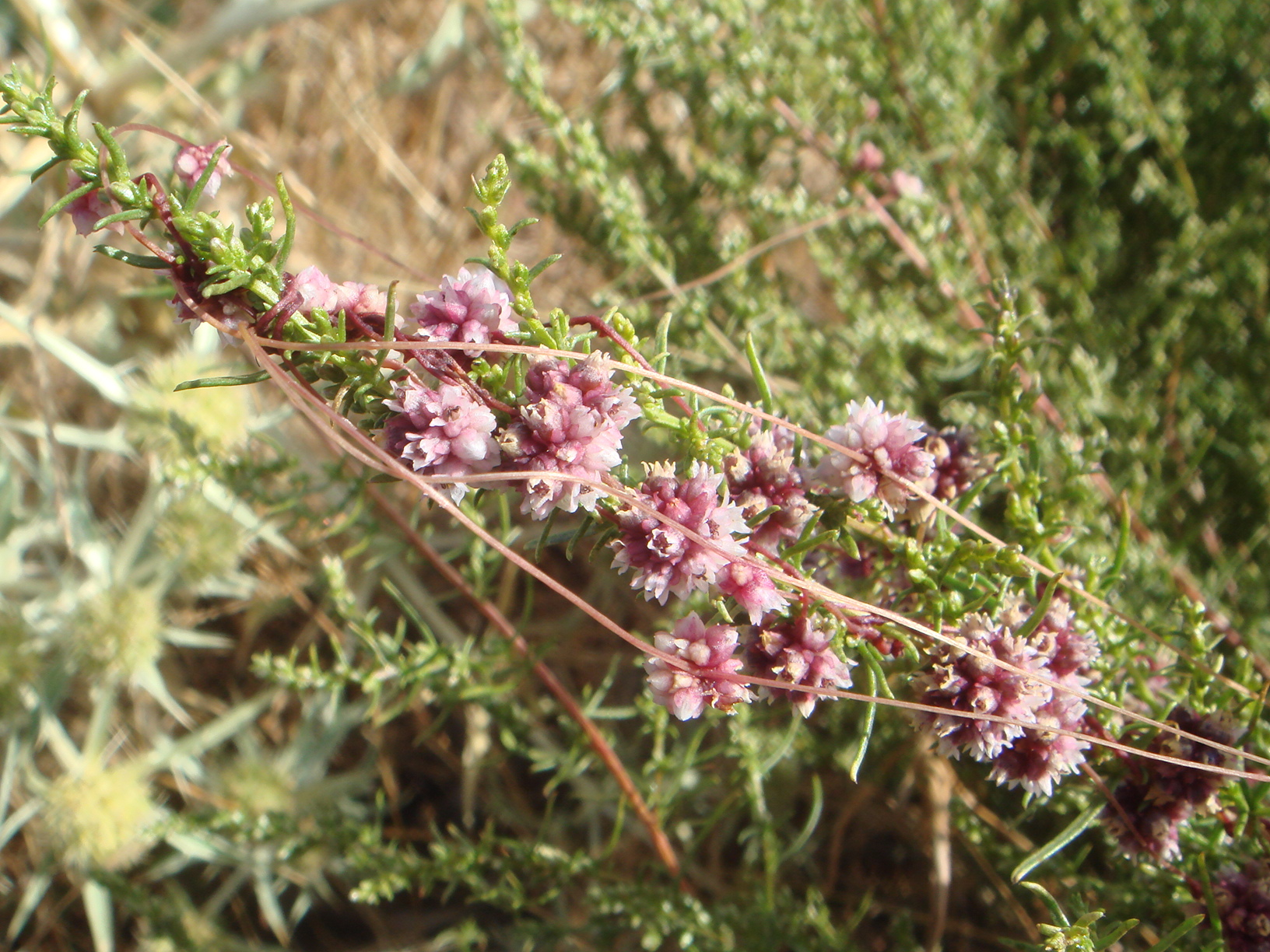 Greater dodder (Cuscuta europaea) on Artemisia campestris at Sierra de Ávila, Spain.